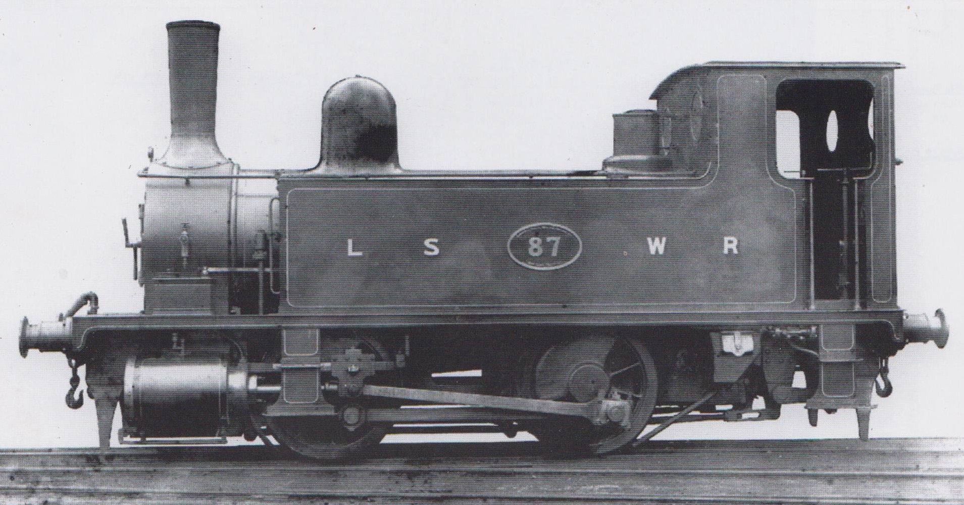 Official LSWR photograph, 1891